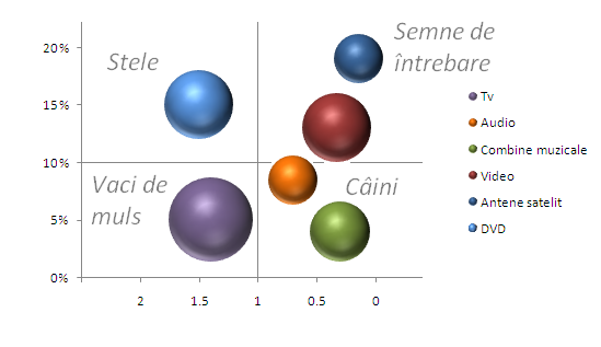 Example of a Boston Matrix for a company offering audio and video equipment